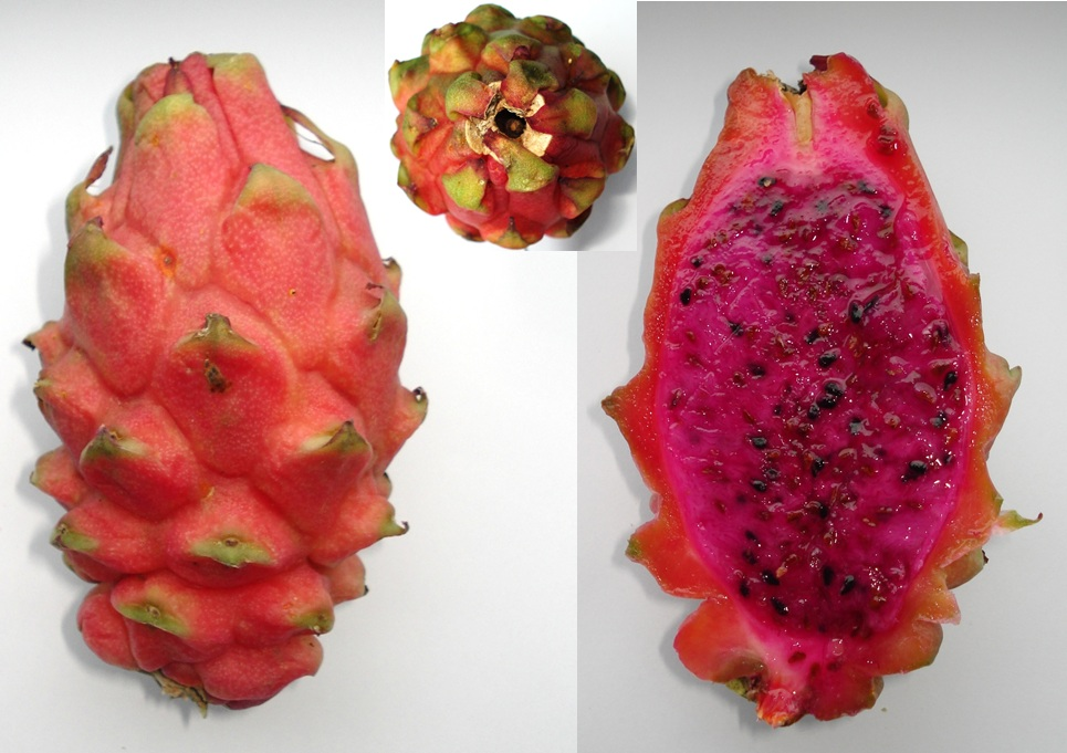 Pitahaya - maybe Selenicereus sp. or cultivar?